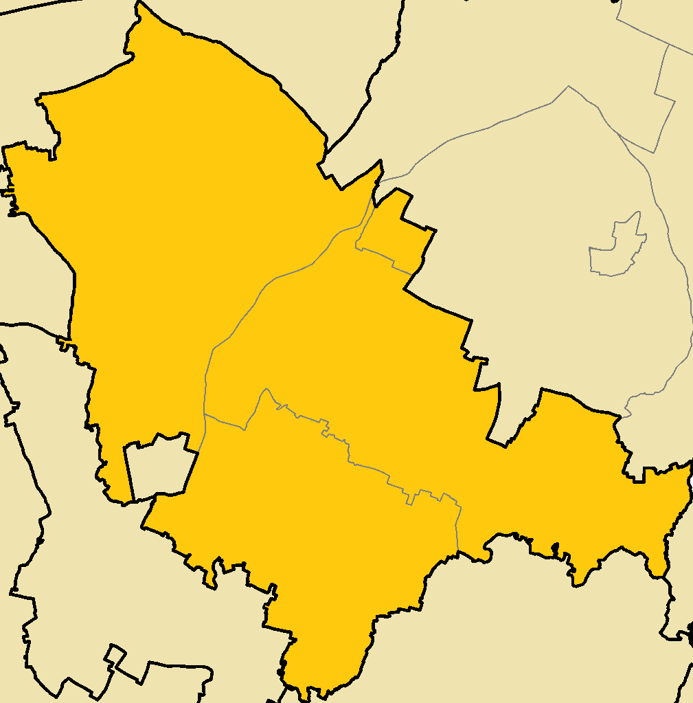 Lakatamia Municipality with quarters.